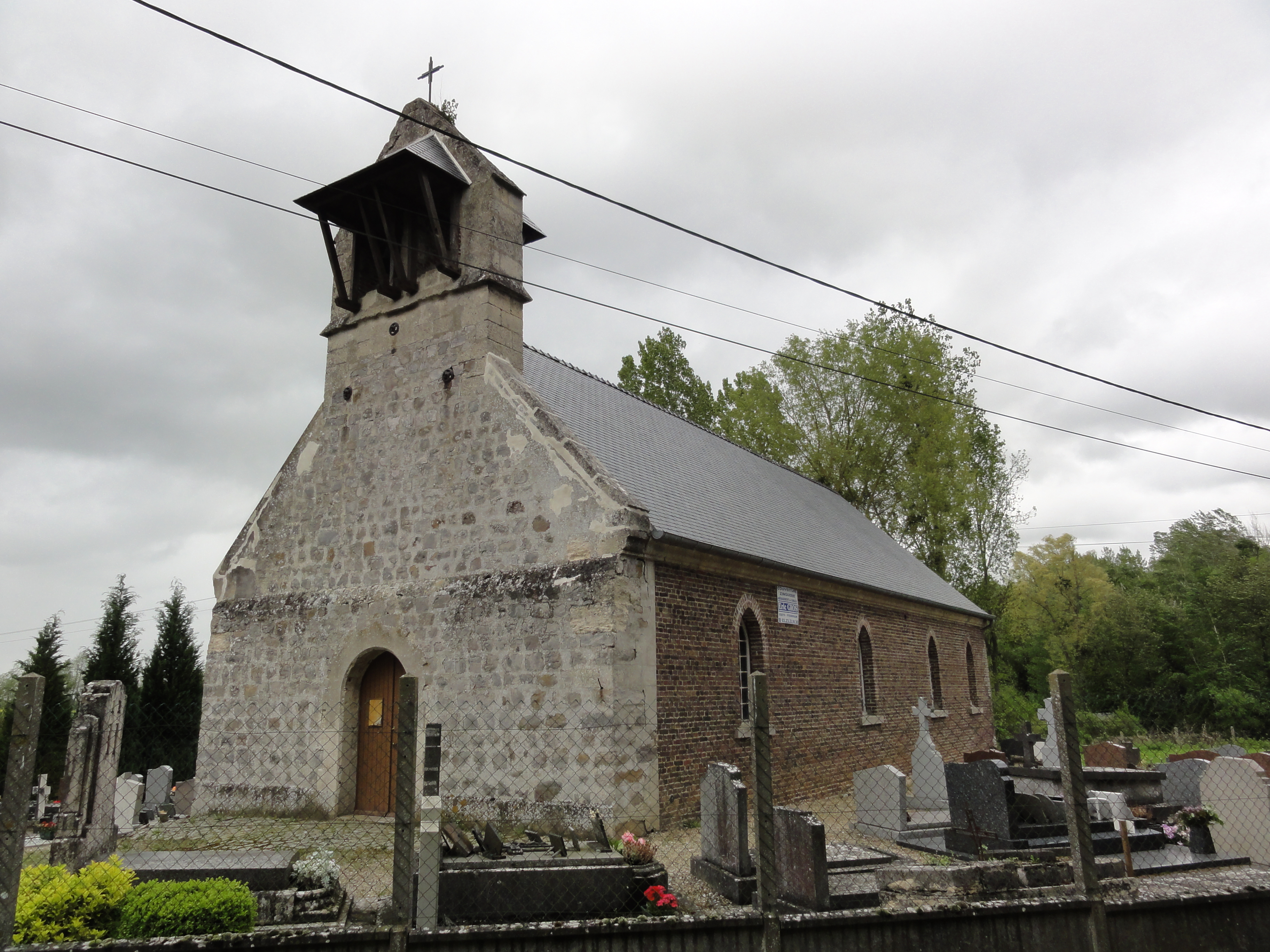 Fressancourt (Aisne) église Saint-Pierre et Saint-Paul